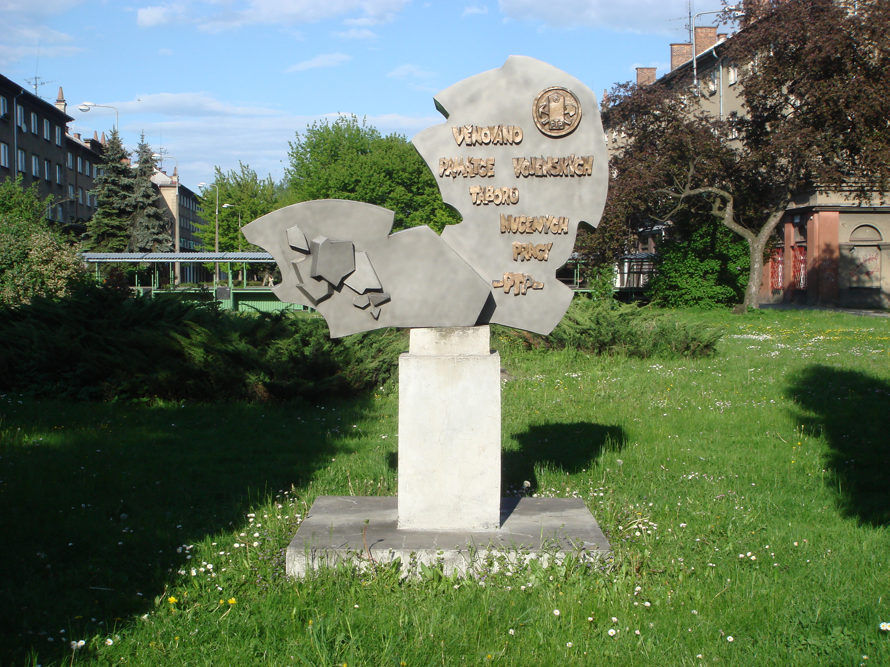 Monument in Karviná commemorating military camps of forced labour in the era of Communist Czechoslovakia (Moravian-Silesian Region, Czech Republic).